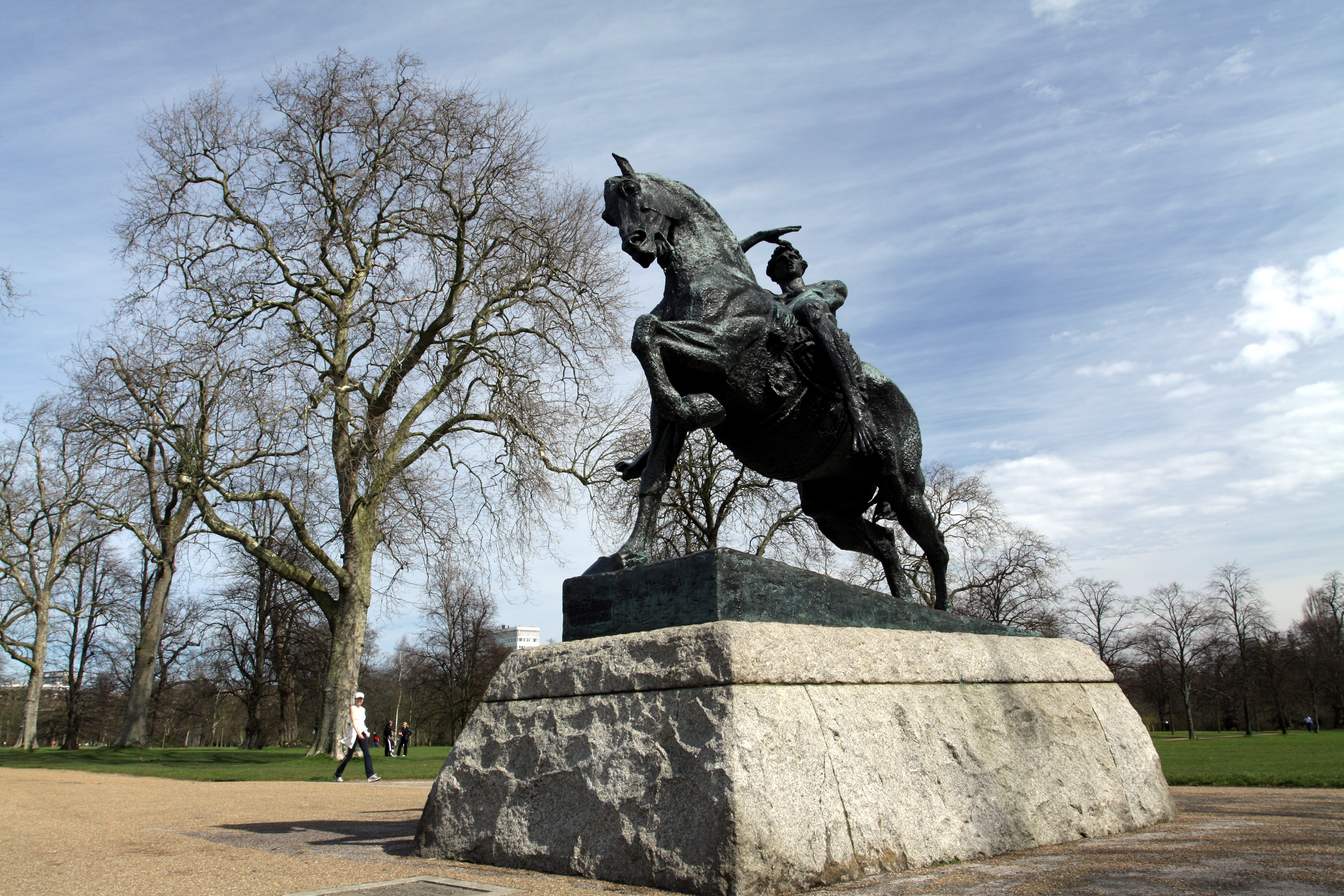 Equestrian statue called Physical Energy in Hyde Park in the City of Westminster in London, Great Britain. The making of this file was supported by Wikimedia UK.